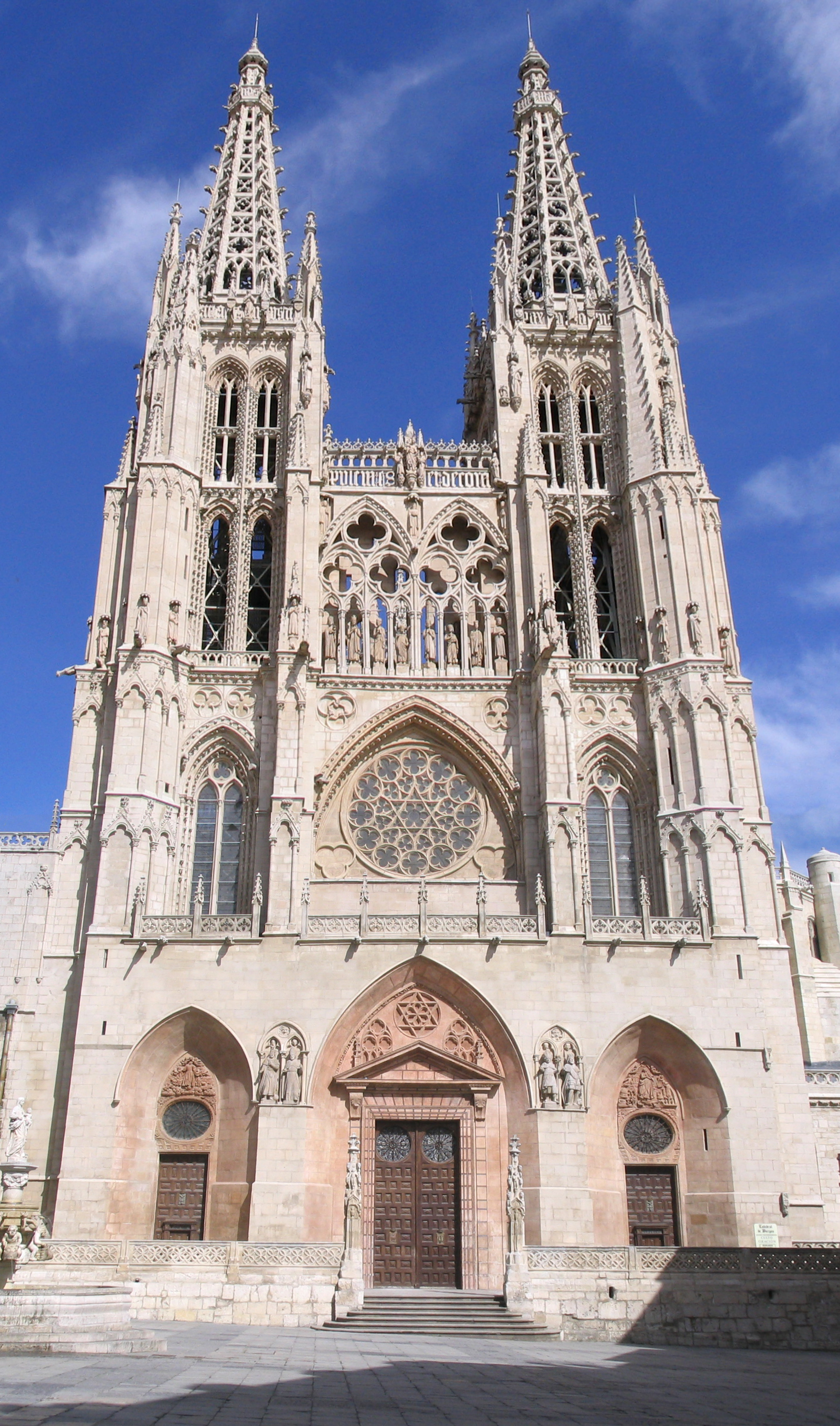 Burgos cathedral (Gothic architecture) - west facade and twin spires